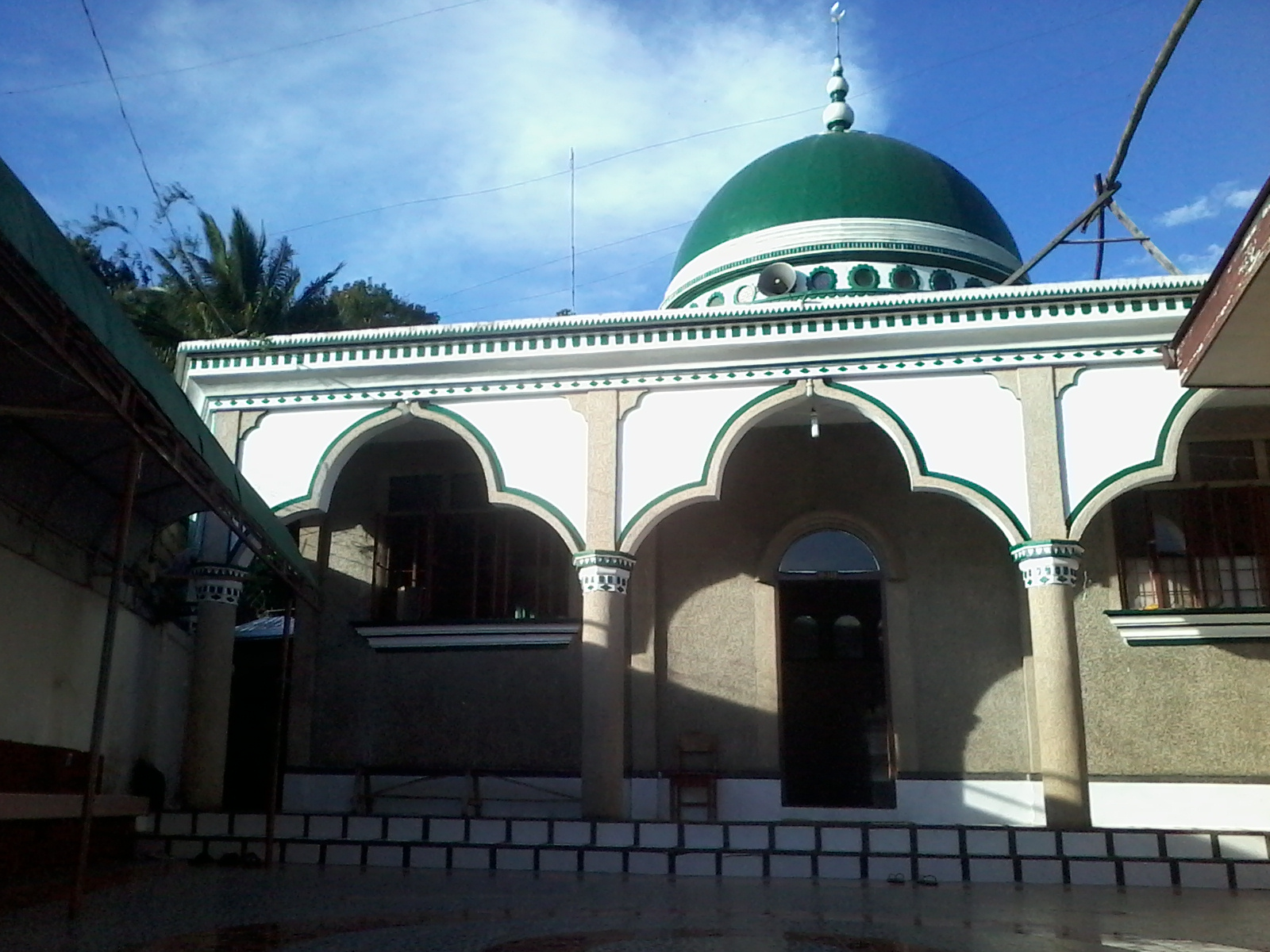 Malaybalay Grand Mosque, Brgy 9, Malaybalay City